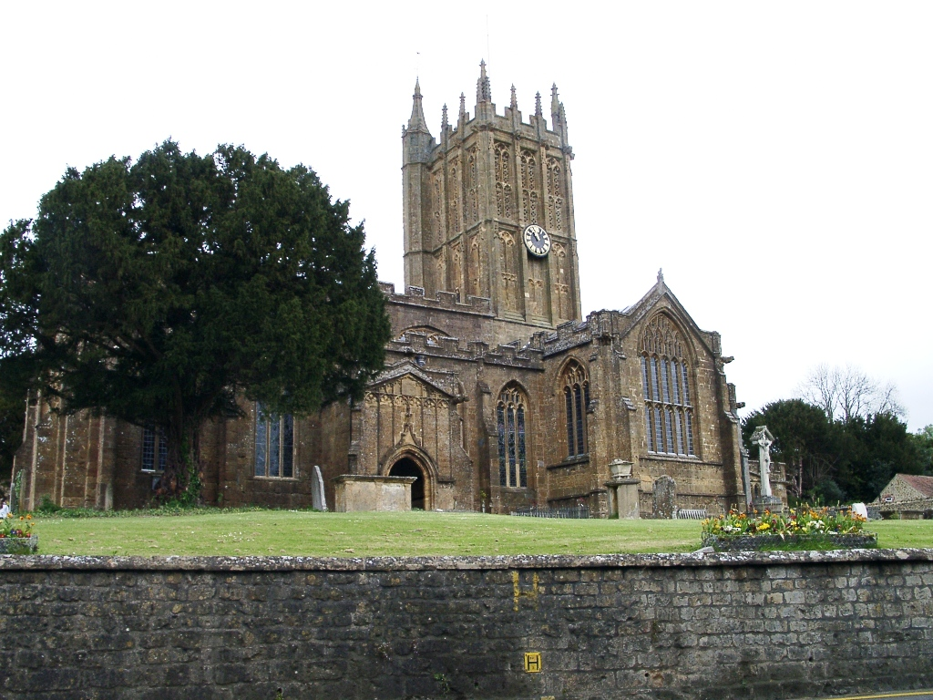 The Minster Church at Ilminster, on a rainy April 27 2002.